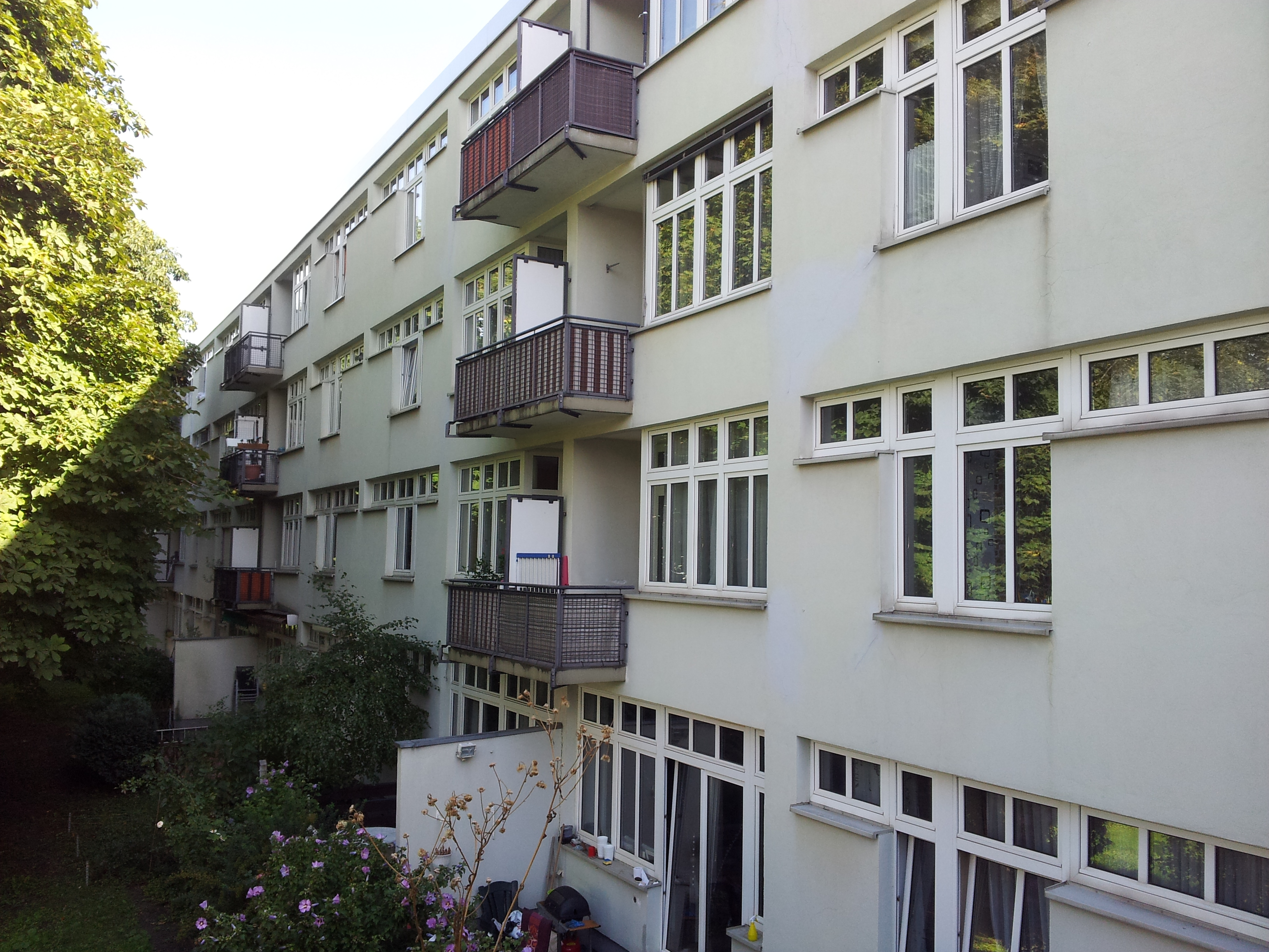 Houses designed 1929 by Mart Stam during the New Frankfurt project.